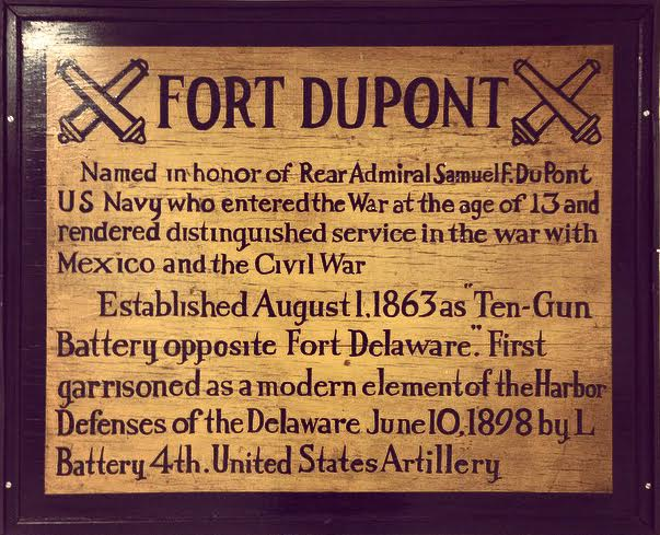 I took this photograph of an original sign from Fort DuPont.